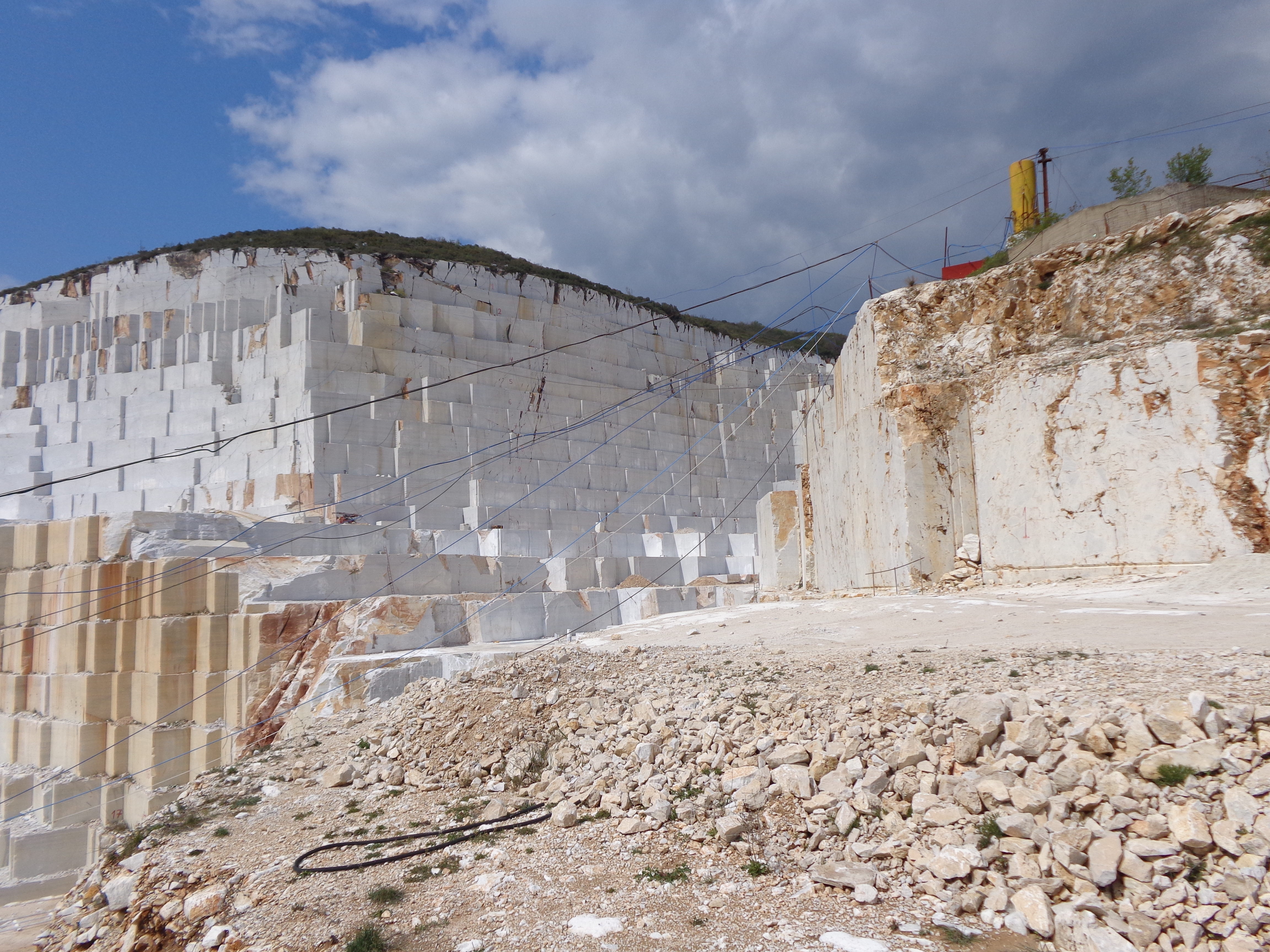 Stenopos Kavalas Marble Quarry, Greece